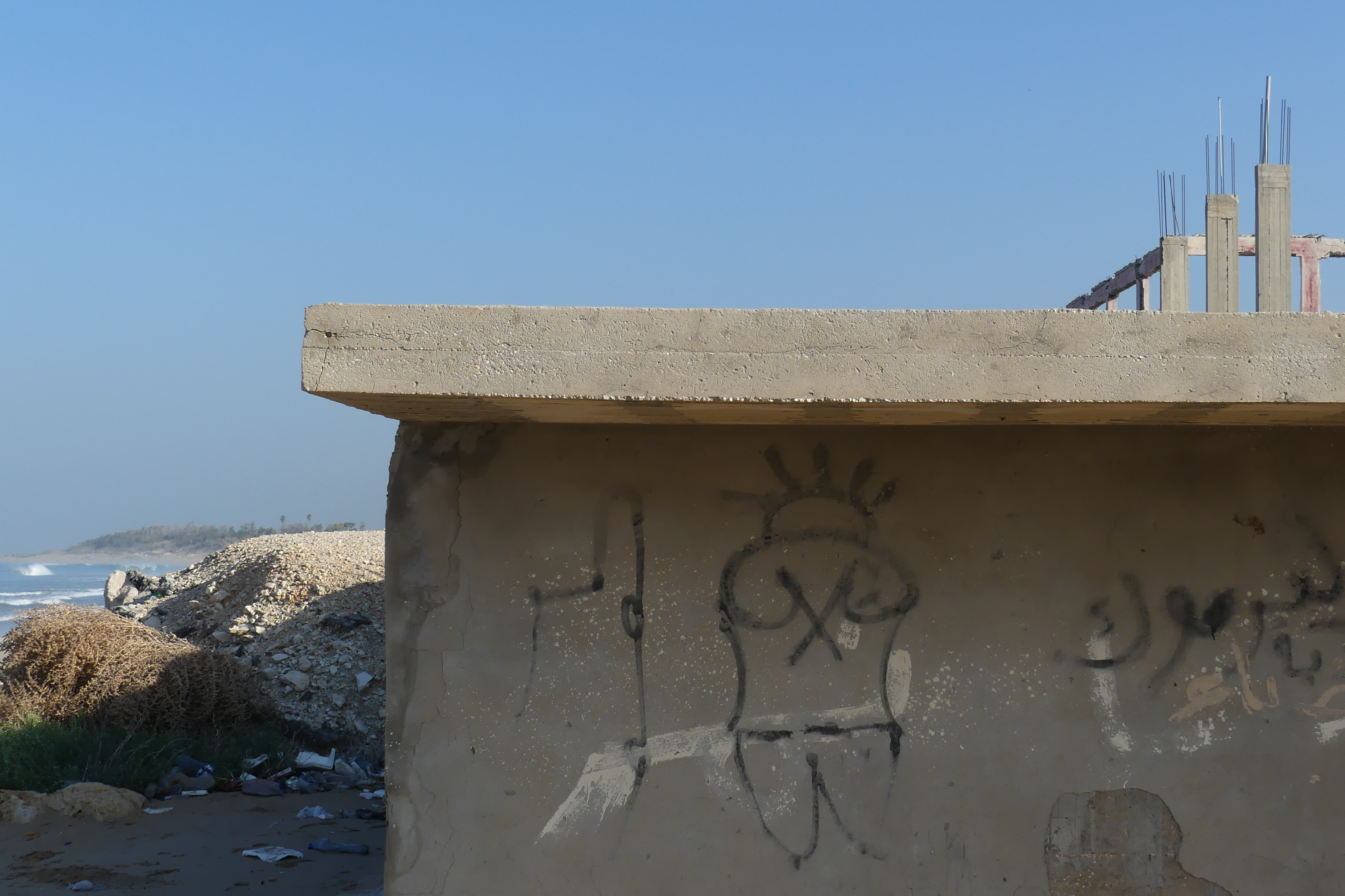 Handala on a wall in Jal Al Bahar, a "gathering of Palestinian refugees on the Northern beach bay of Tyre/Sour (Southern Lebanon).